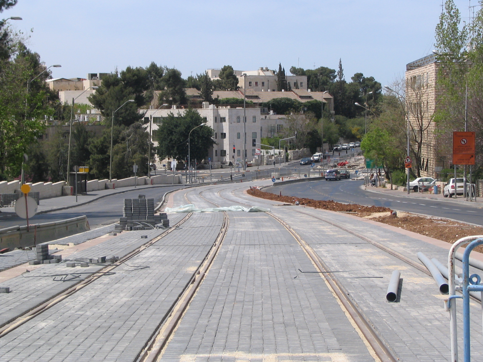 Light rail tracks on Herzl Blvd, Jerusalem, Israel